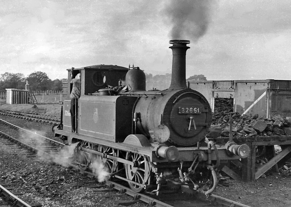 Havant Branch locomotive at Hayling Island. At the 'Locomotive Depot', one of the ancient ex-LB&SC A1X class 0-6-0Ts which owed their survival to being the only engines light enough to cross the Langston Bridge on the Branch is being coaled ready for its return to Havant. No. 32661 was built as an A1 by Stroudley as No. 61 'Sutton' in 10/1875, rebuilt to A1X in 1/12 and survived until 4/63. It is fitted with a spark-arrestor for some reason.